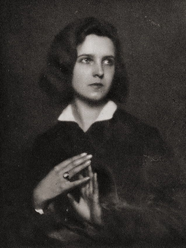 Portrait of Lisl Goldarbeiter, Miss Austria 1929 (later Miss Universe 1929)